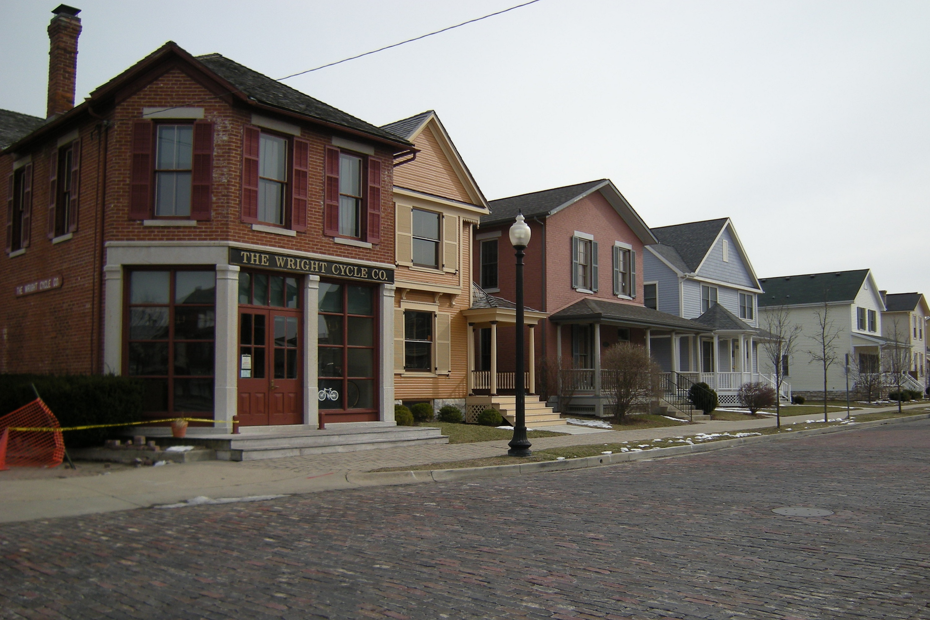 Wright Brothers shop and street, Dayton Aviation Heritage National Historic Park